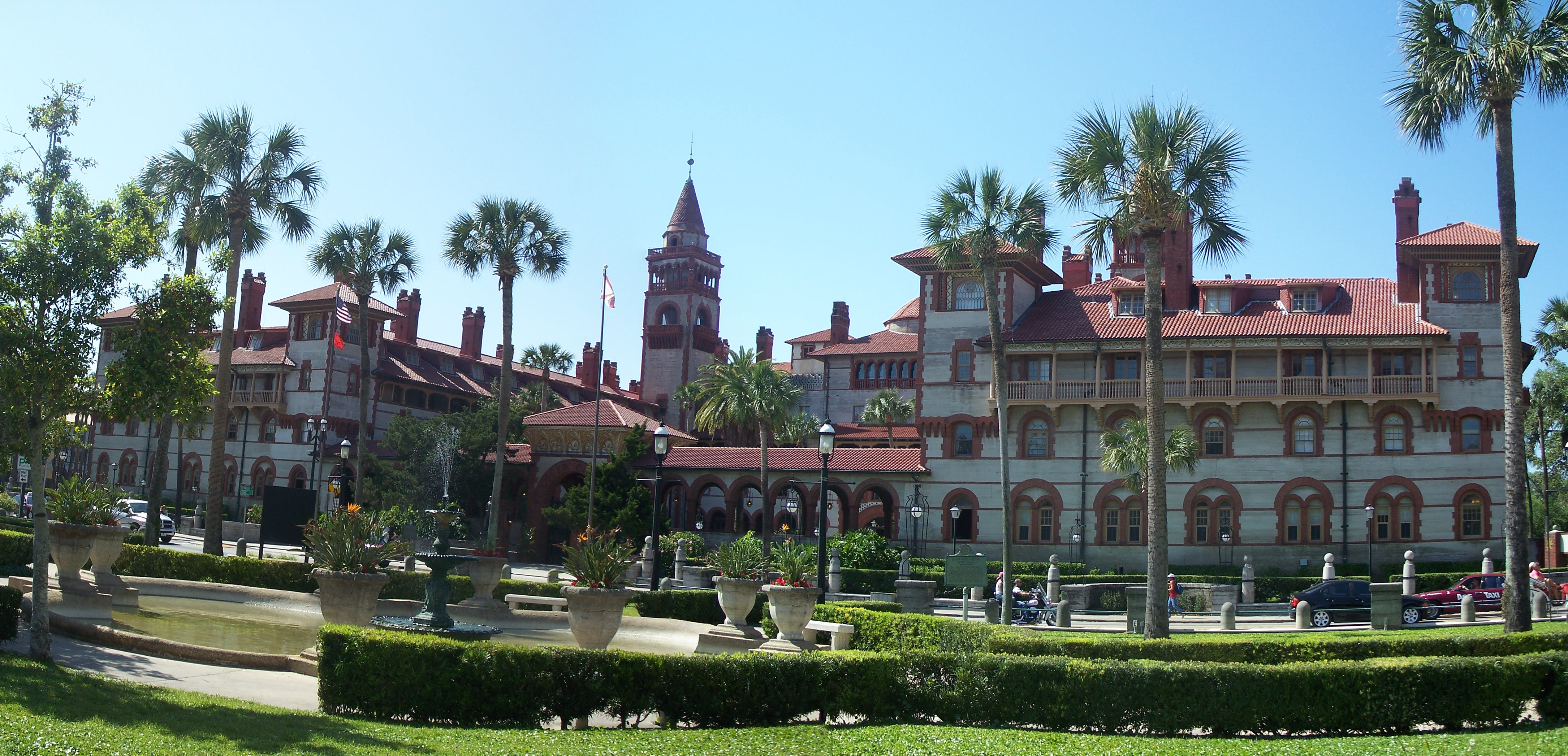 St. Augustine, Florida: Ponce de León Hotel, a National Historic Landmark, now part Flagler College. Panorama view.